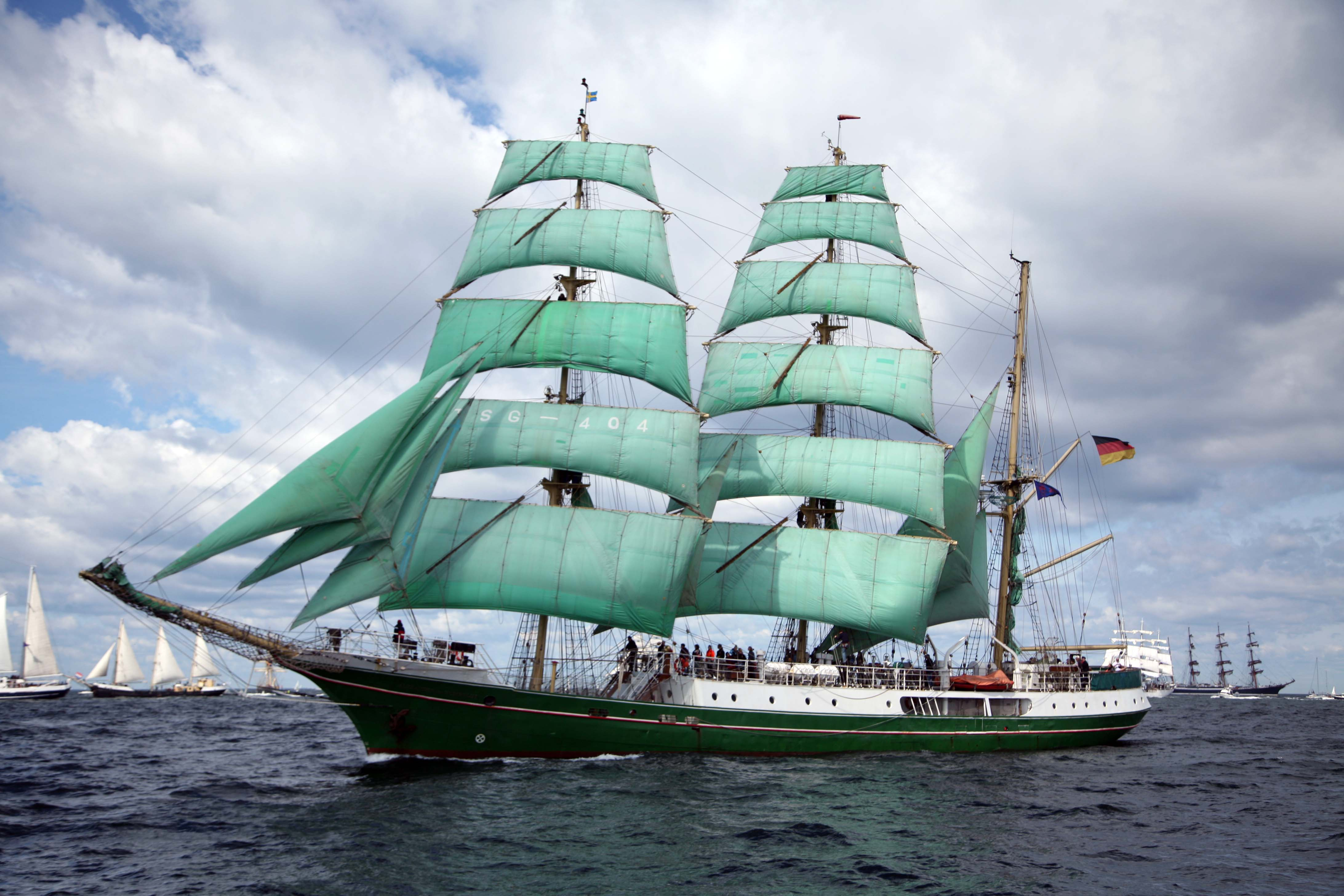 The barque Alexander von Humbolt (built 1906) was originally a lighthouse ship. Photo taken during the Tall Ships' Races, Baltic Races 2007